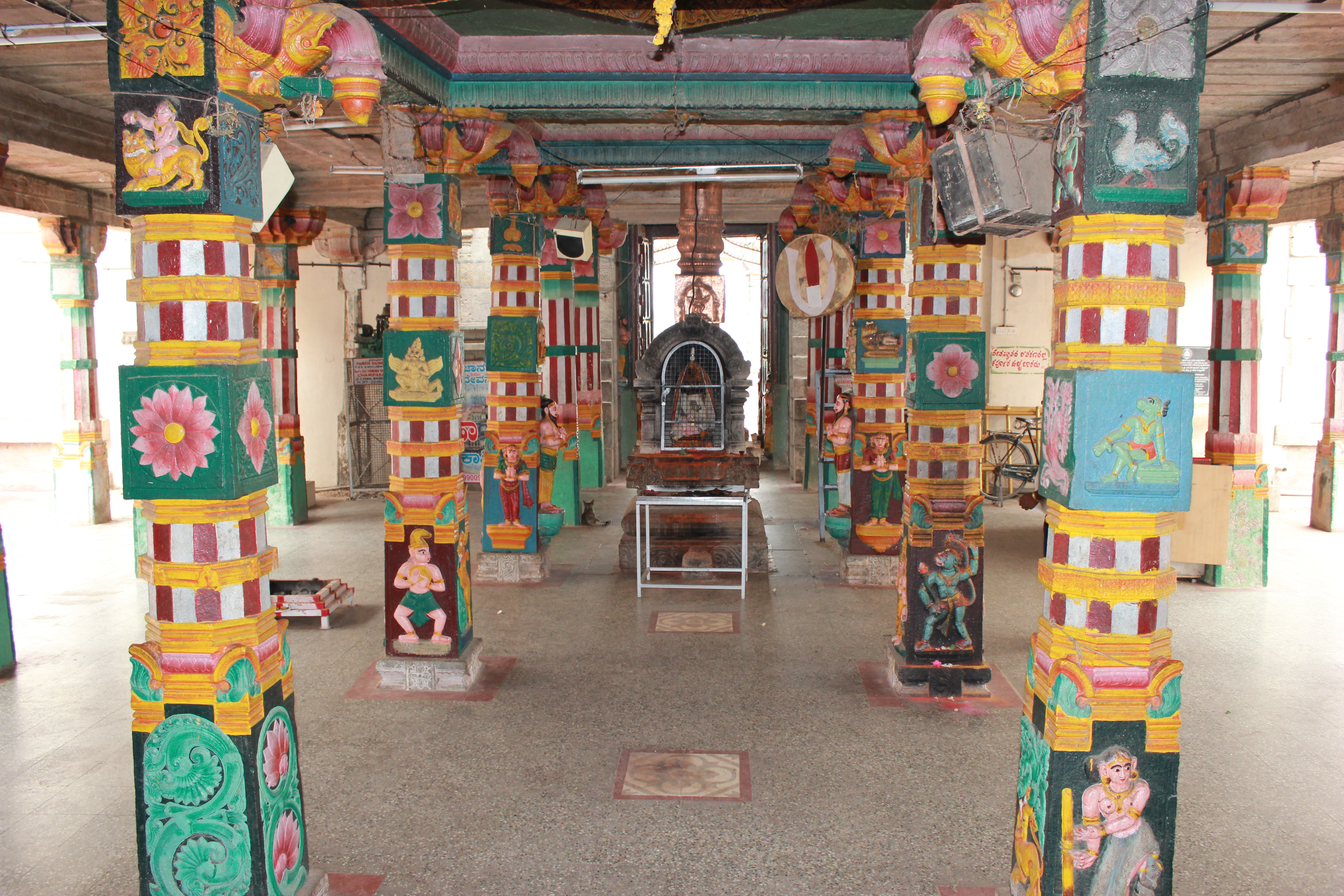 Gunjanarasimhaswamy temple at Tirumakudal Narasipura, Mysore district, Karnataka state, India